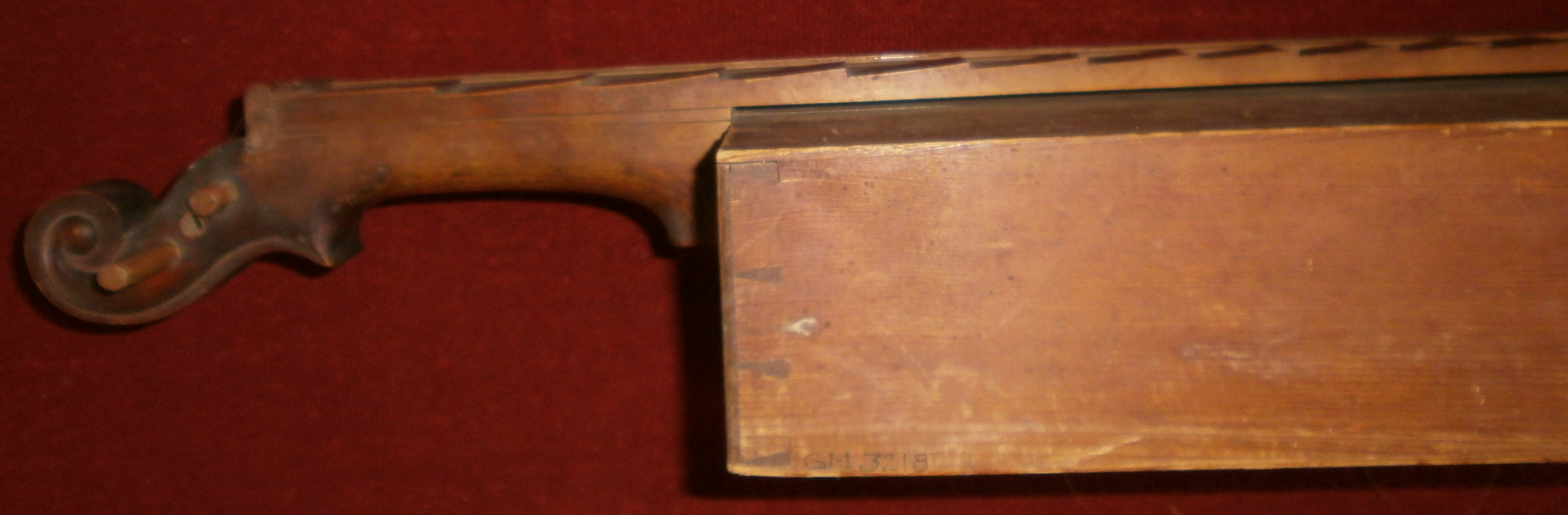 The profile of the fingerboard.